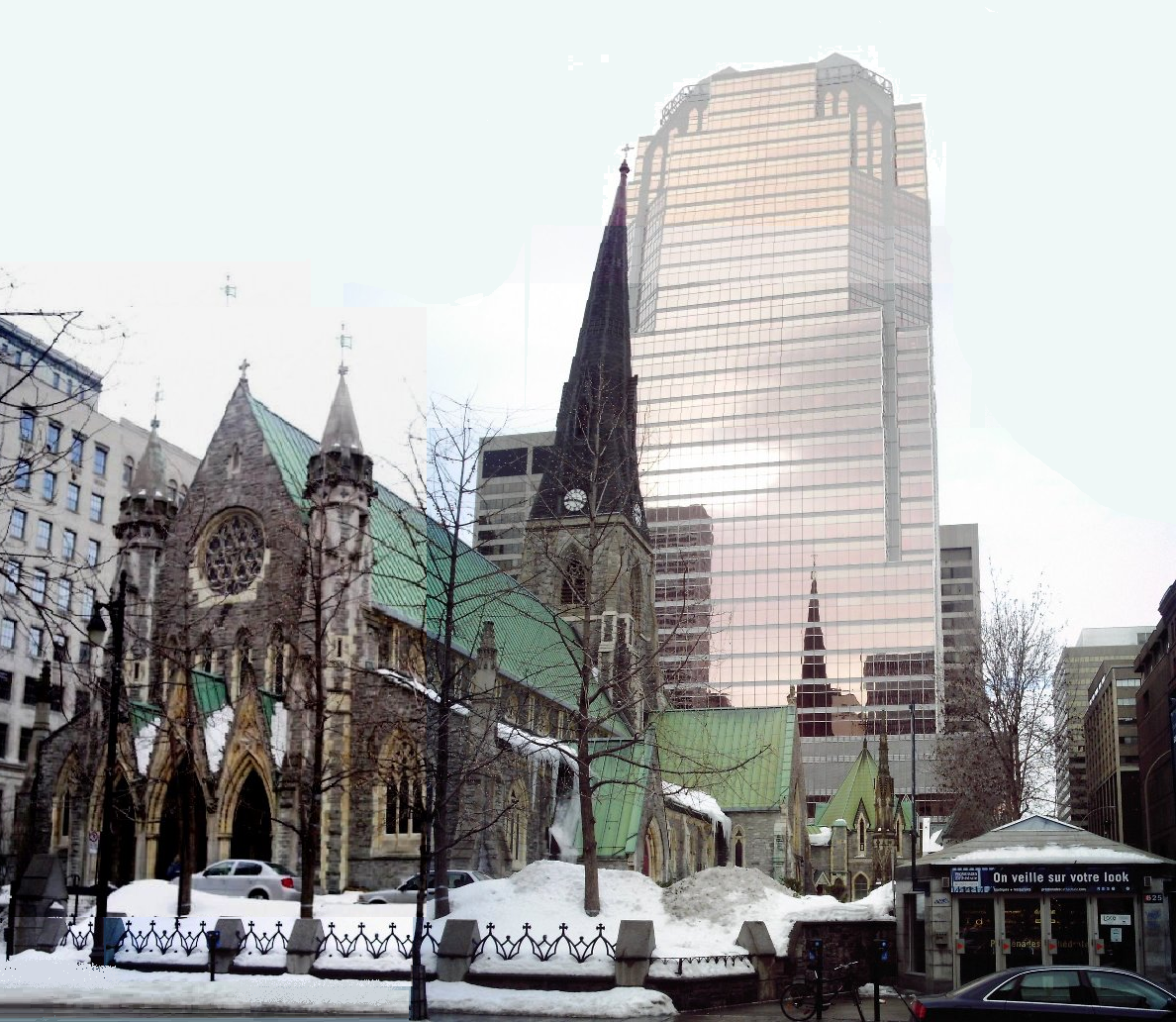 Promenades de la Cathédrale in Montreal